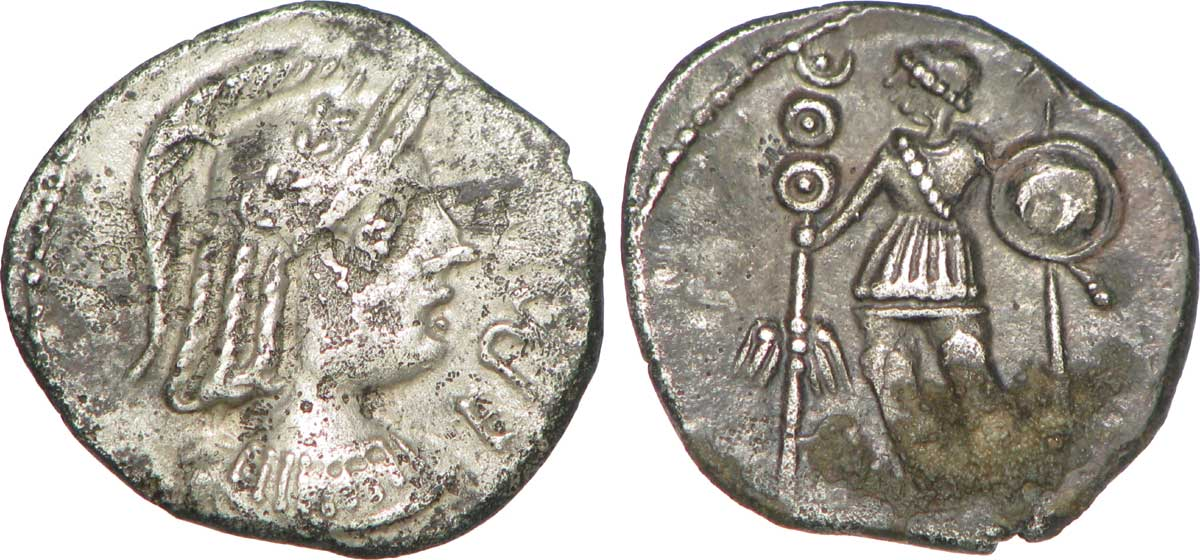 Denier au guerrier frappé par les Arvernes Date : après 52 AC. Description revers : Guerrier debout, tenant de la main droite une enseigne militaire munie de deux ailes, de la gauche un bouclier rond et une lance ; son épée soutenue par un ceinturon, passe derrière le bouclier ; casque dans le champ, devant ses jambes . Description avers : Buste jeune, imberbe et casqué, à droite ; le casque lauré à panache, le cou orné d’un collier de perles et de pendeloques ; légende devant le visage, grènetis .